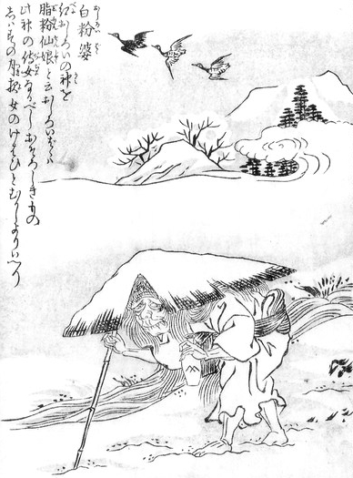 Oshiroibaba (白粉婆, the spirit of face powder) from the Konjaku Hyakki Shūi (今昔百鬼拾遺)